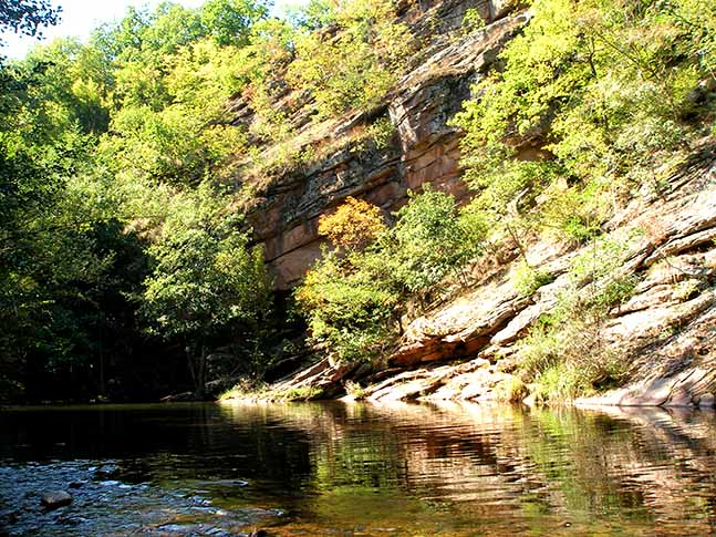 Кањон Темштице